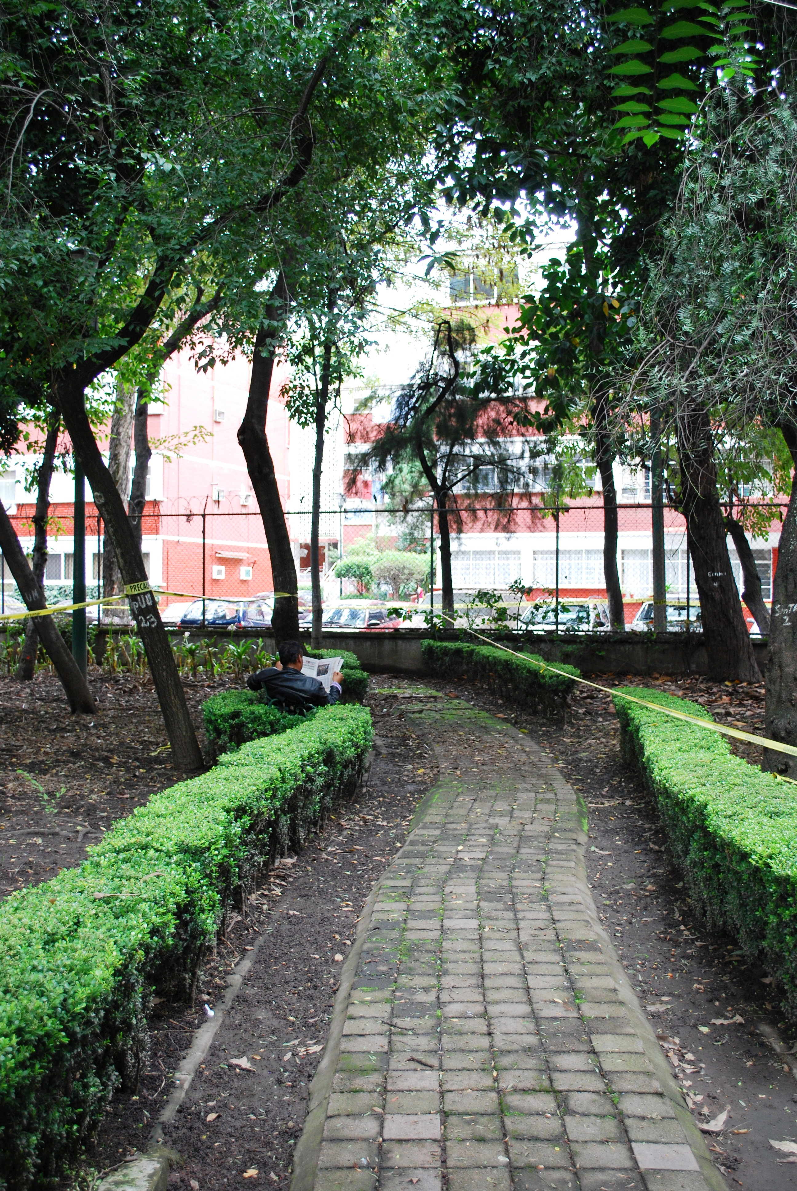 Path leading to apartment buildings of the Centro Urbano Benito Juarez from what is now called the Jardin Ramon Lopez Velarde park